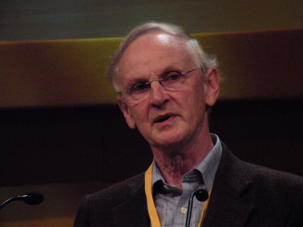 Paul Tyler, Baron Tyler addressing the 2011 Liberal Democrats autumn conference in the International Convention Centre, Birmingham